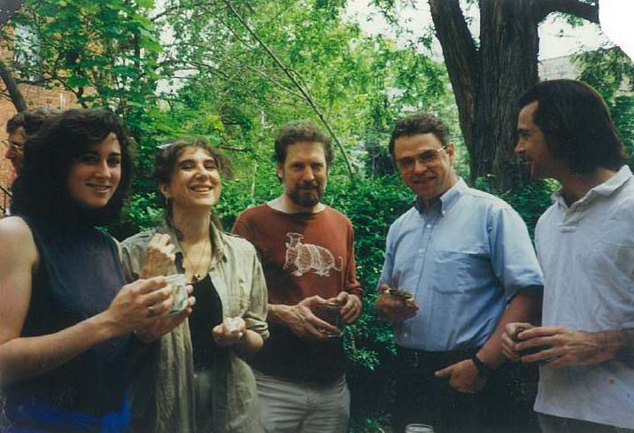 Decentralist Kirkpatrick Sale, center, and futurist Bob Olson, to Sale's immediate left, at a surprise lawn party and "roast" for Mark Satin on the occasion of Satin's acquiring a 10,000th subscriber for his Washington, D.C.-based New Age political newsletter, New Options. Sale had been a member of the Governing Council of the New World Alliance (1979–1983), a U.S. "transformational" political organization Satin had co-founded. Olson had been chairperson of the Alliance.